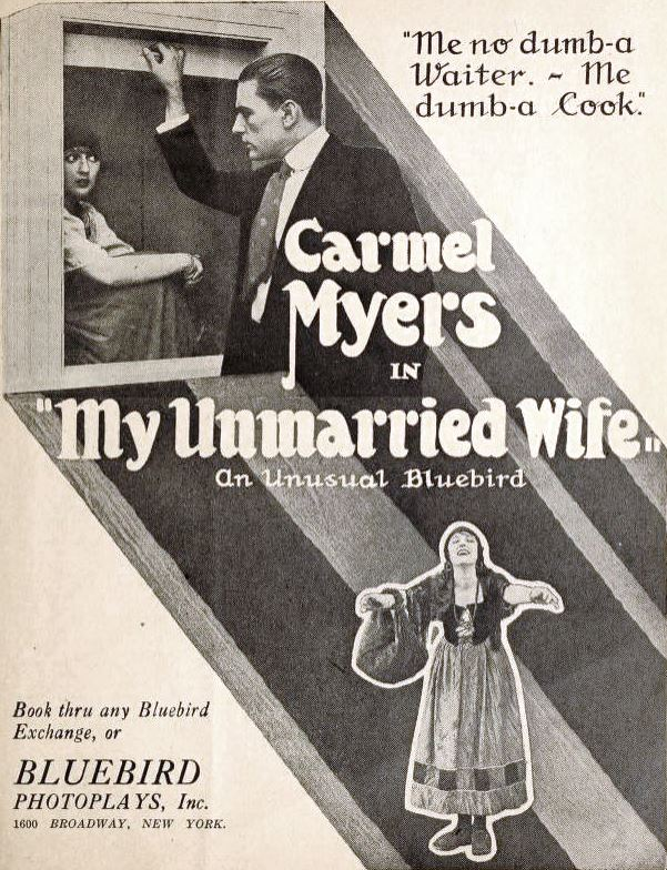 Advertisement for the American drama film My Unmarried Wife (1918) with Carmel Myers, on page 37 of the February 2, 1918 The Moving Picture Weekly.